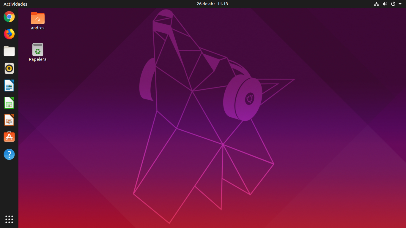 A screenshot Ubuntu 19.04 Disco Dingo running on a Dell Inspiron 3420, Intel Core i5